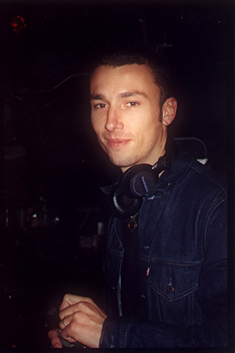 My picture taken from the artist, approved by the artist.